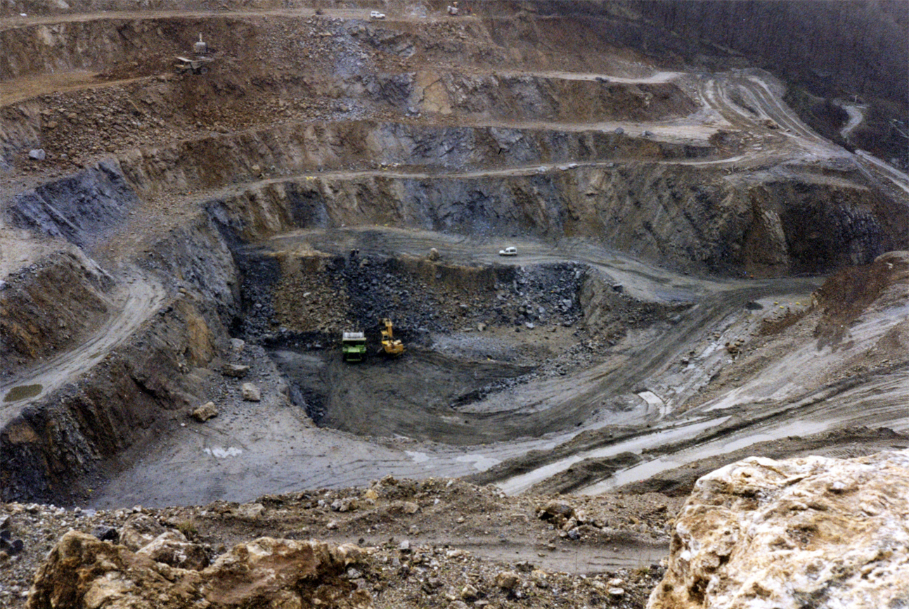 Magnesite quarry Eugui, Esteribar (Navarra). Spain